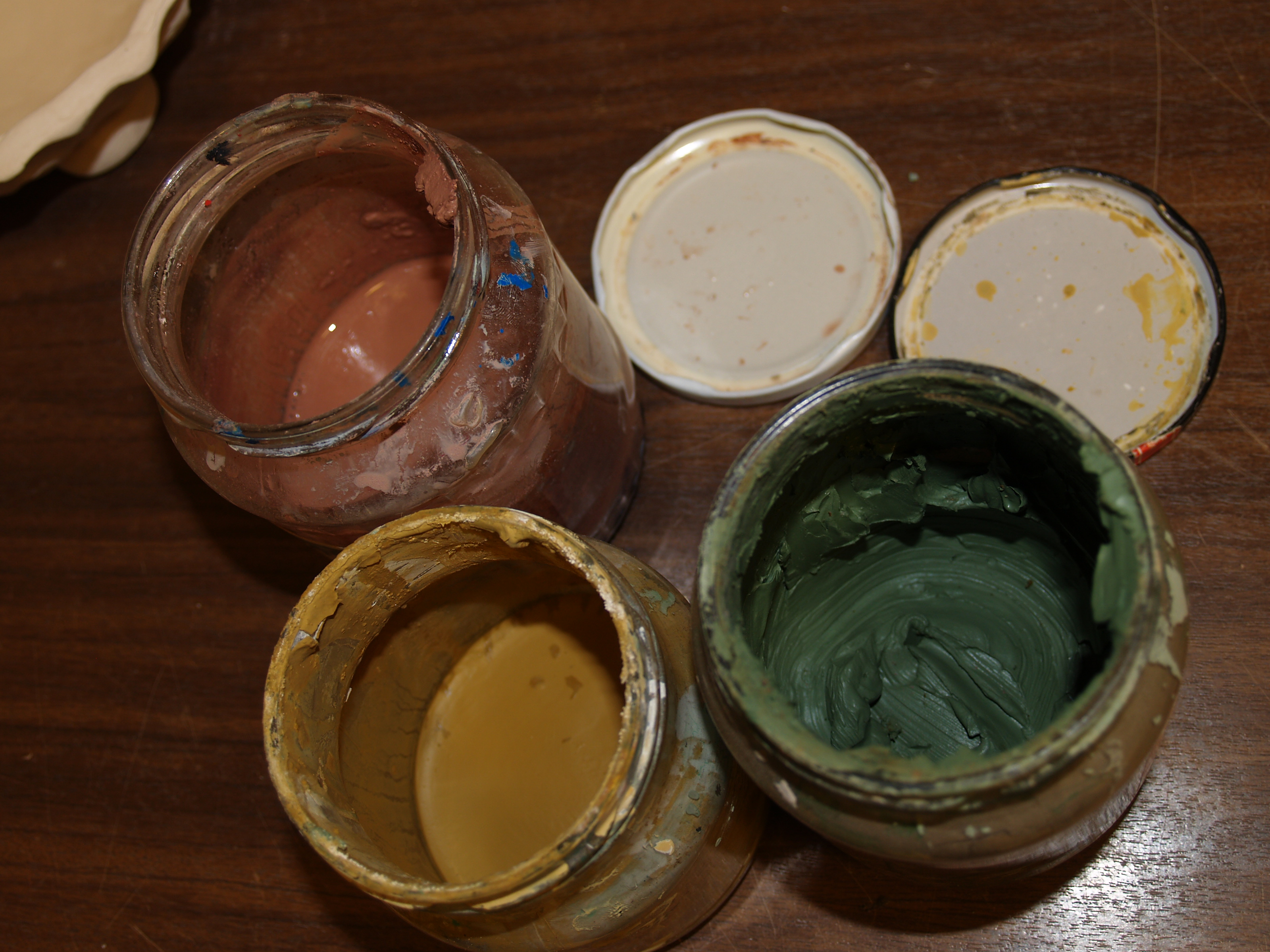 Different engobes.